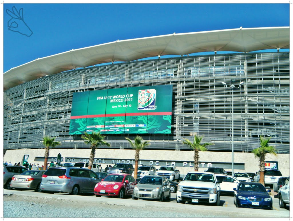 word cup